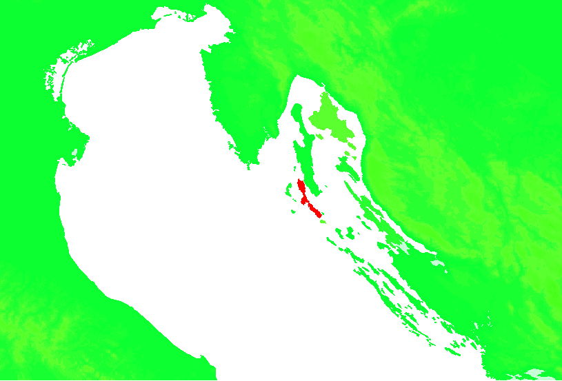 Island of Croatia Croatia - Losinj.PNG